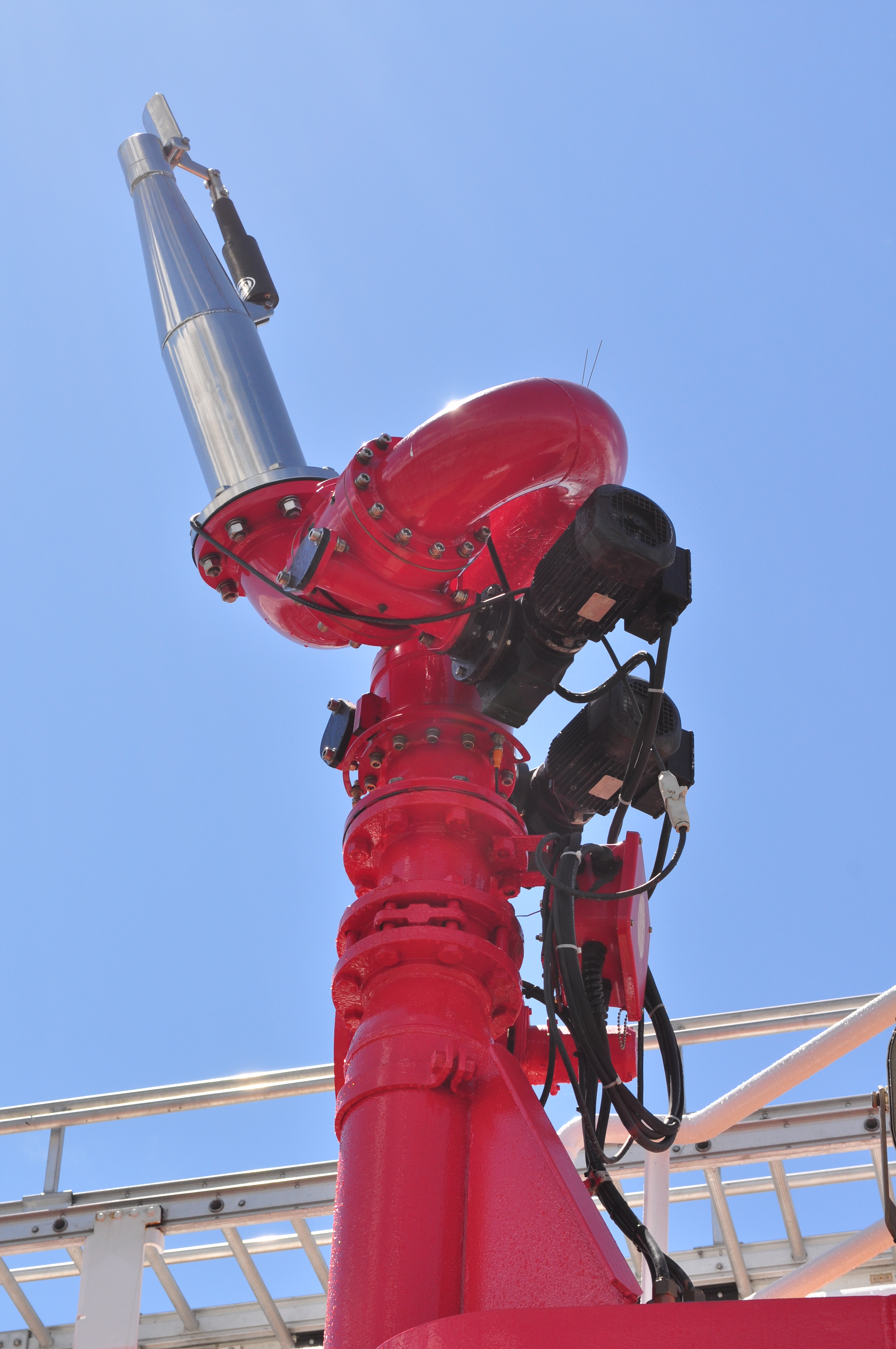 Water cannon aboard Fireboat Leschi. Photographed while the Leschi visited Shilshole Bay Marina, Ballard, Seattle, Washington, U.S. for Marina Day 2016.